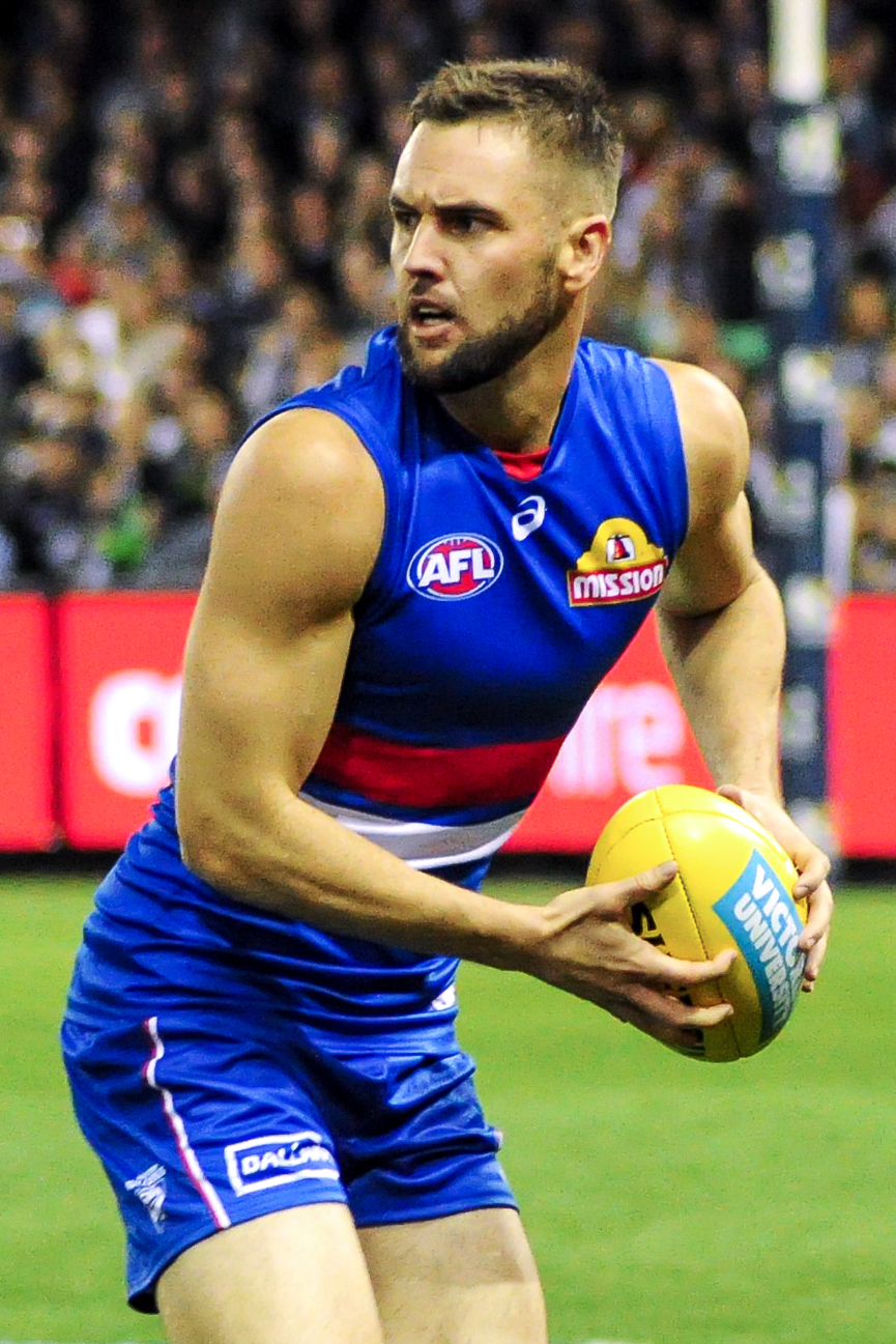 Matt Suckling during the AFL round six match between the Western Bulldogs and Carlton on Friday, 27 April 2018 at Etihad Stadium in Melbourne, Victoria.